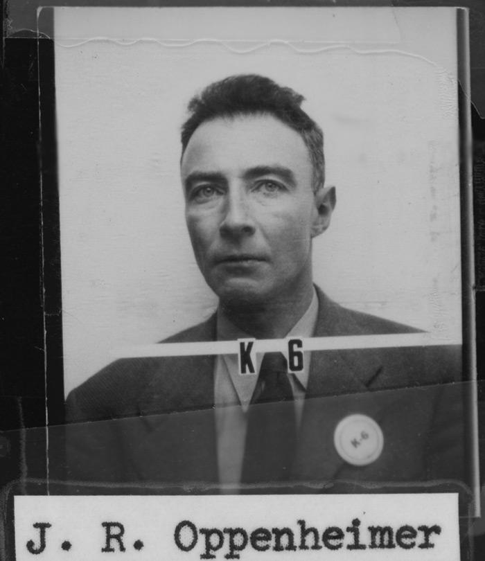 J. R. Oppenheimer Los Alamos ID